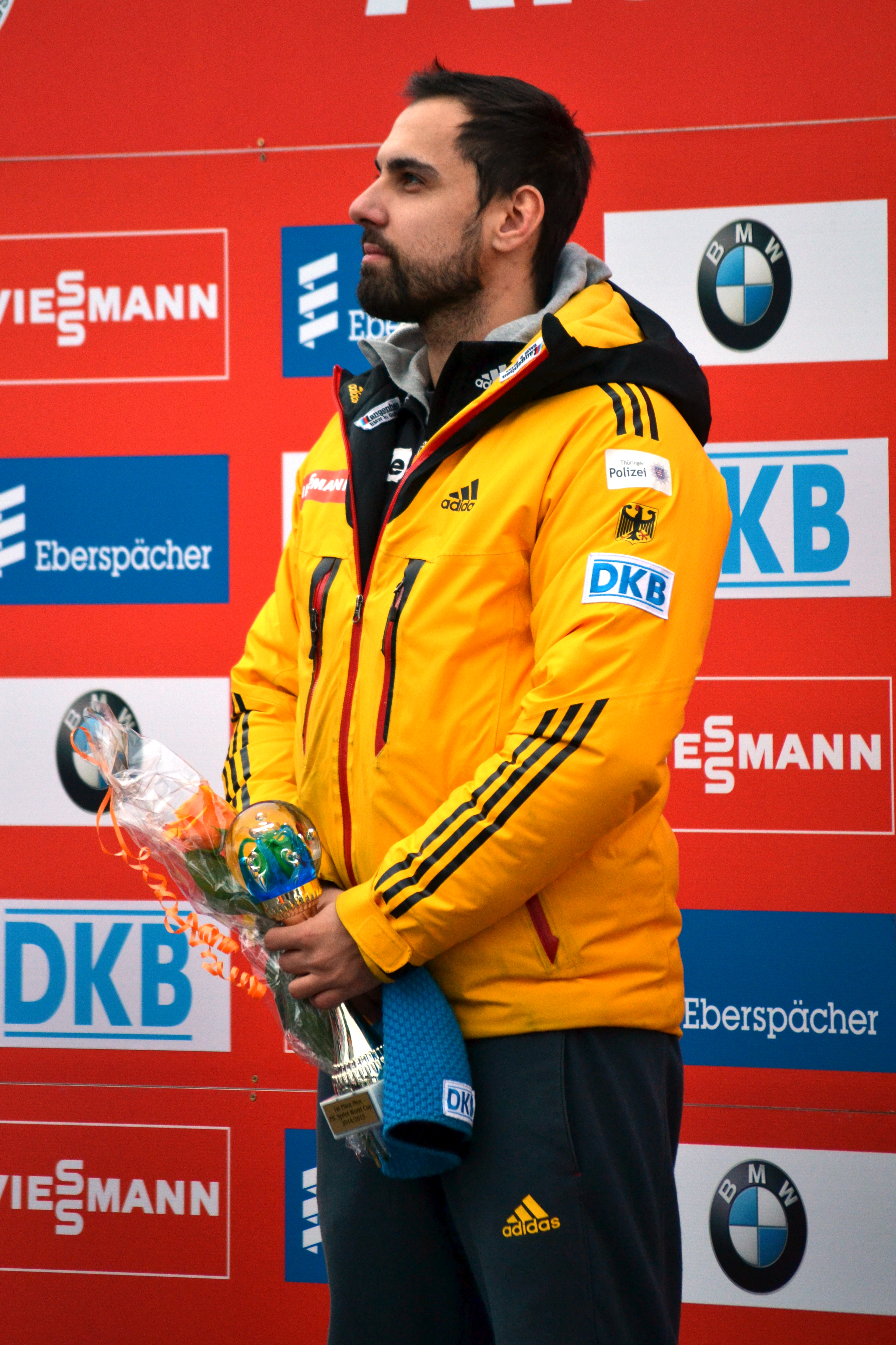 Luge world cup race season 2014/15 in Altenberg/Germany, 19th to 22nd Februar 2015. Last Day: medal ceremonies.